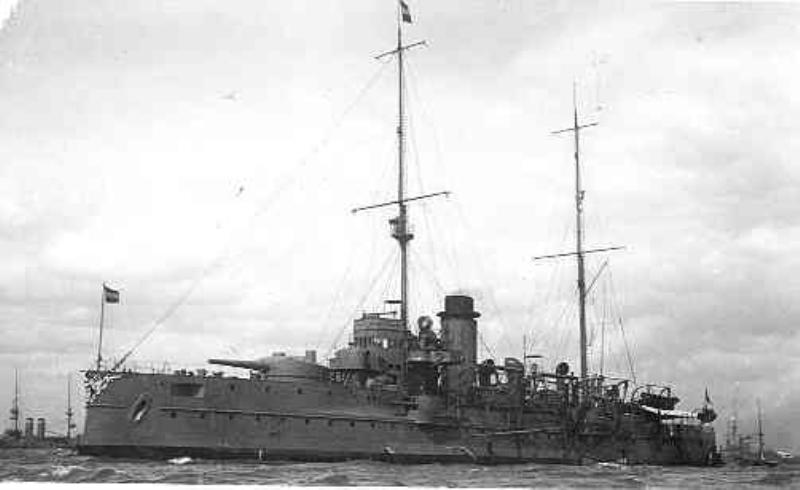 The Dutch coastal defence ship Jacob van Heemskerck